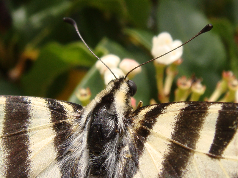 Iphiclides feisthamelii in Buarcos (Vale de Leão), Coimbria, Portugal